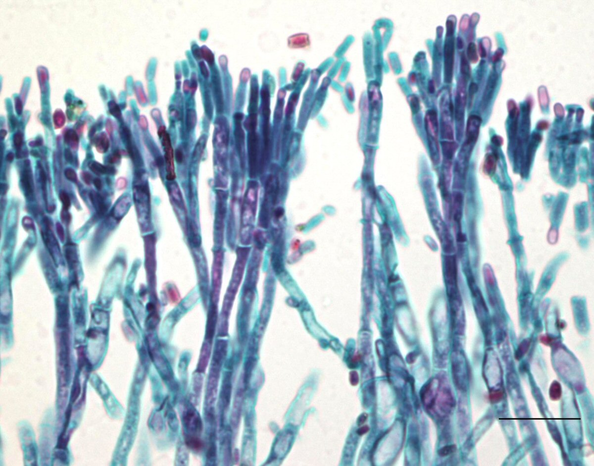 Light microscopy of Penicillium with conidiophores bearing conidia (asexual spores). Scale bar = 0.02mm.